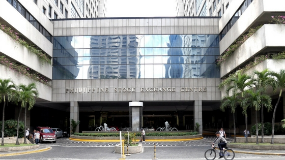 Philippine Stock Exchange Center located at Exchange Road, Ortigas Center, 1605, Pasig, Metro Manila, Philippines